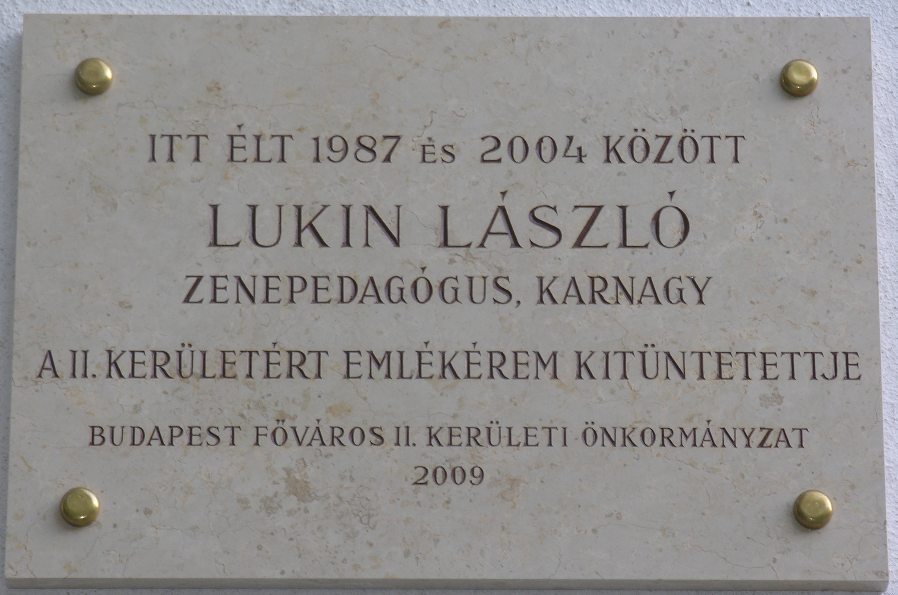 Commemorative plaque of László Lukin in Budapest District II, Vérhalom Street No 20